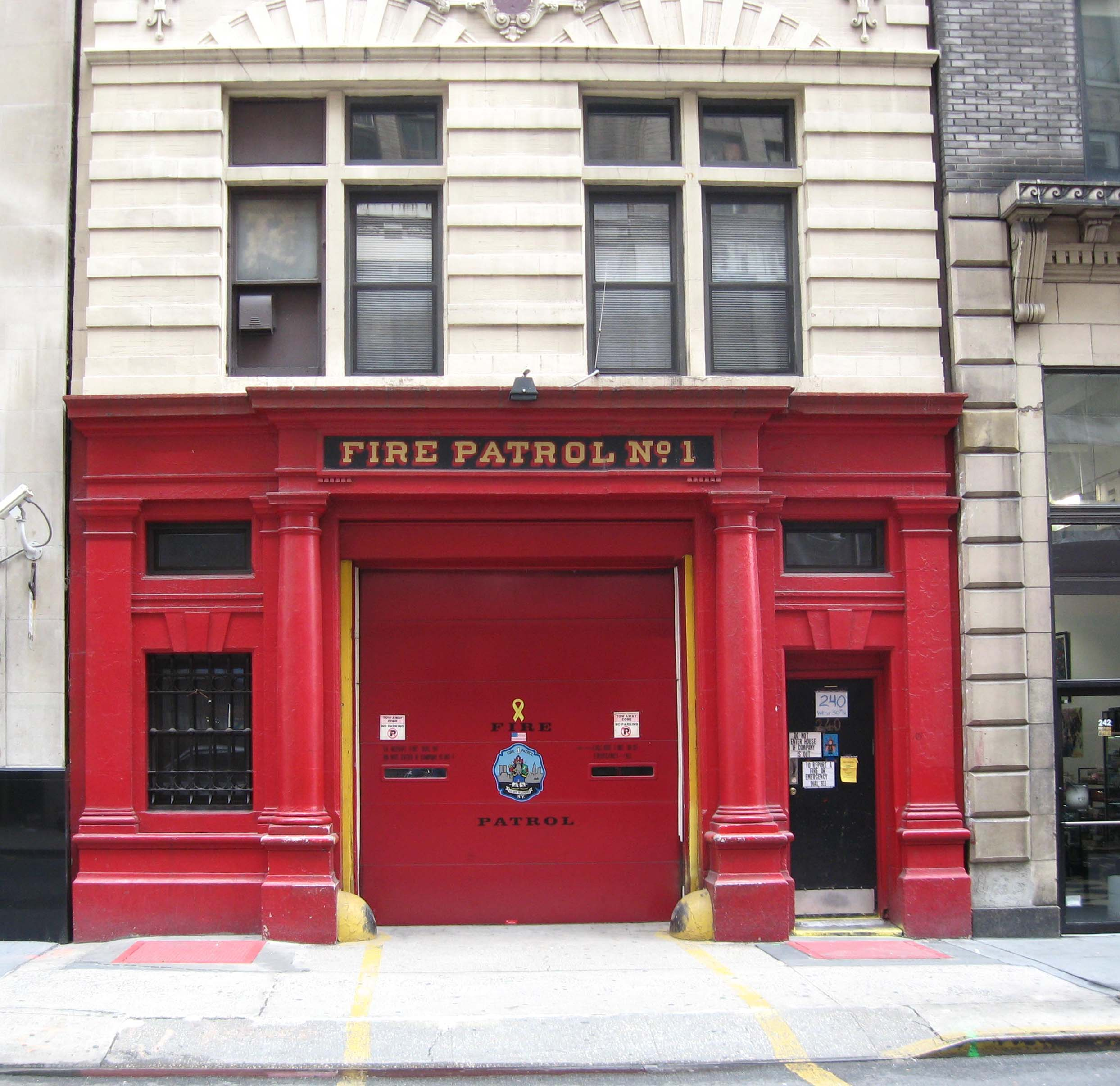 Looking south at Fire Patrol House 1 of the New York Fire Patrol on the south side of 30th Street between 7th and 8th on a cloudy Sunday after the house closed but before conversion.